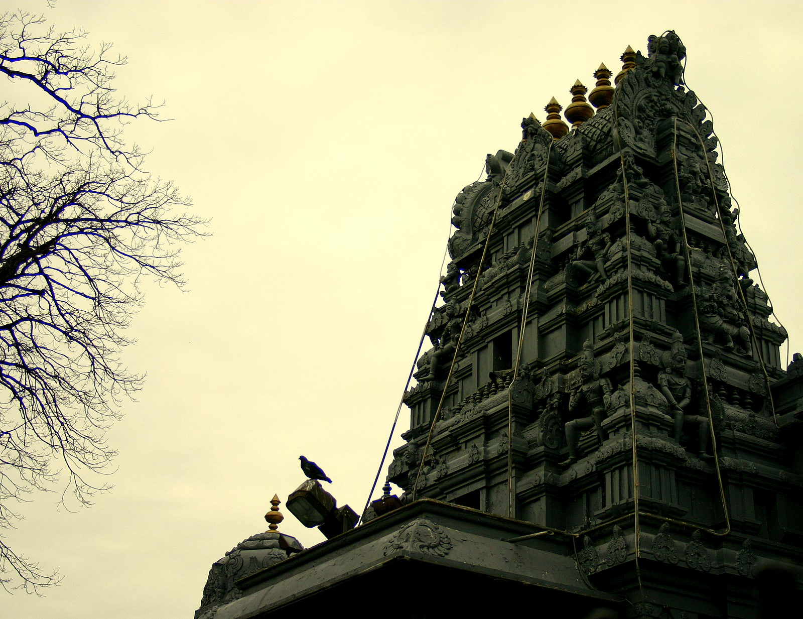 This is Ganapathi temple in Flushing, east of Queens, NY, also known as Hindu Temple Society of North America.